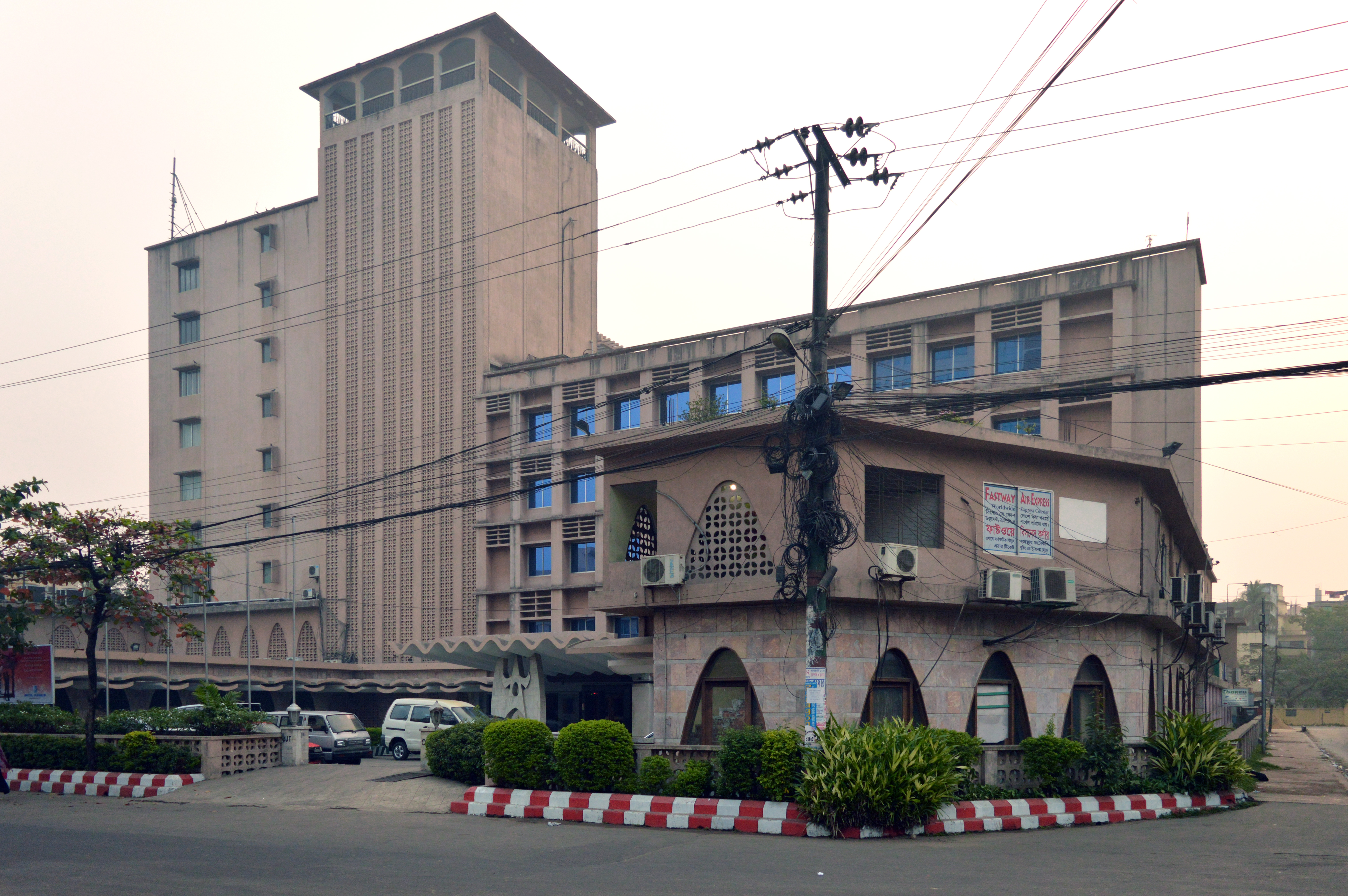 Front (exterior) view of Hotel Agrabad taken from Sabder Ali Road, Agrabad, Chittagong.